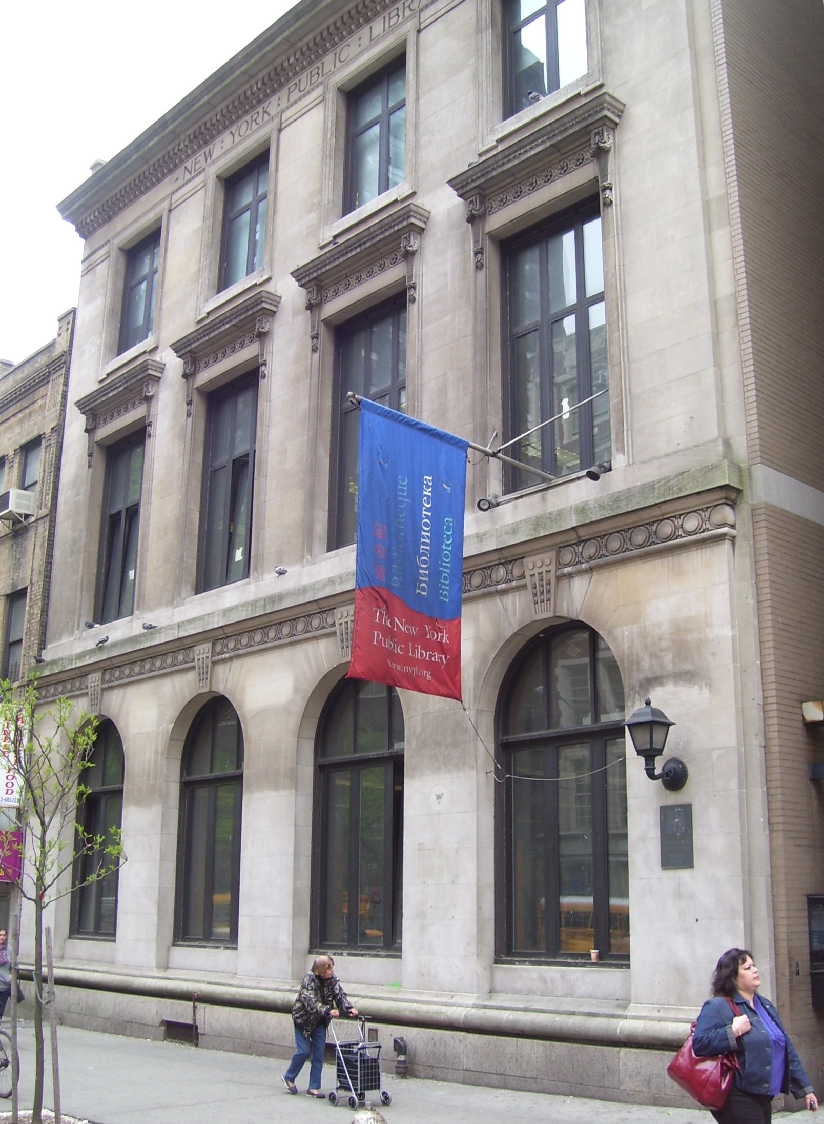 The Epiphany Branch of the New York Public Library on East 23rd Street between Second and Third Avenue.